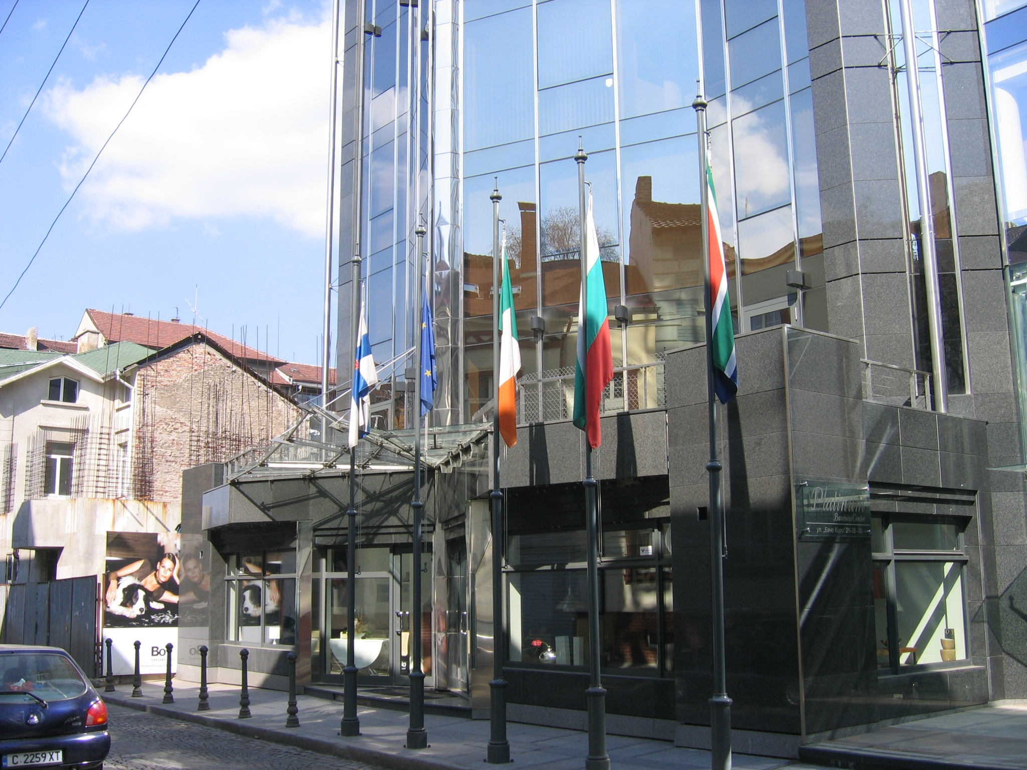 Embassy of Ireland, Sofia